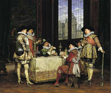 The Game of Cards